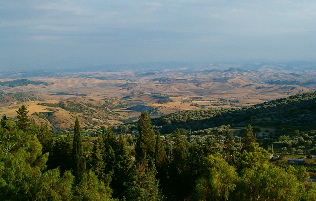 View on the valley of the Basento from Ferrandina picture taken by user Idéfix, july 2003